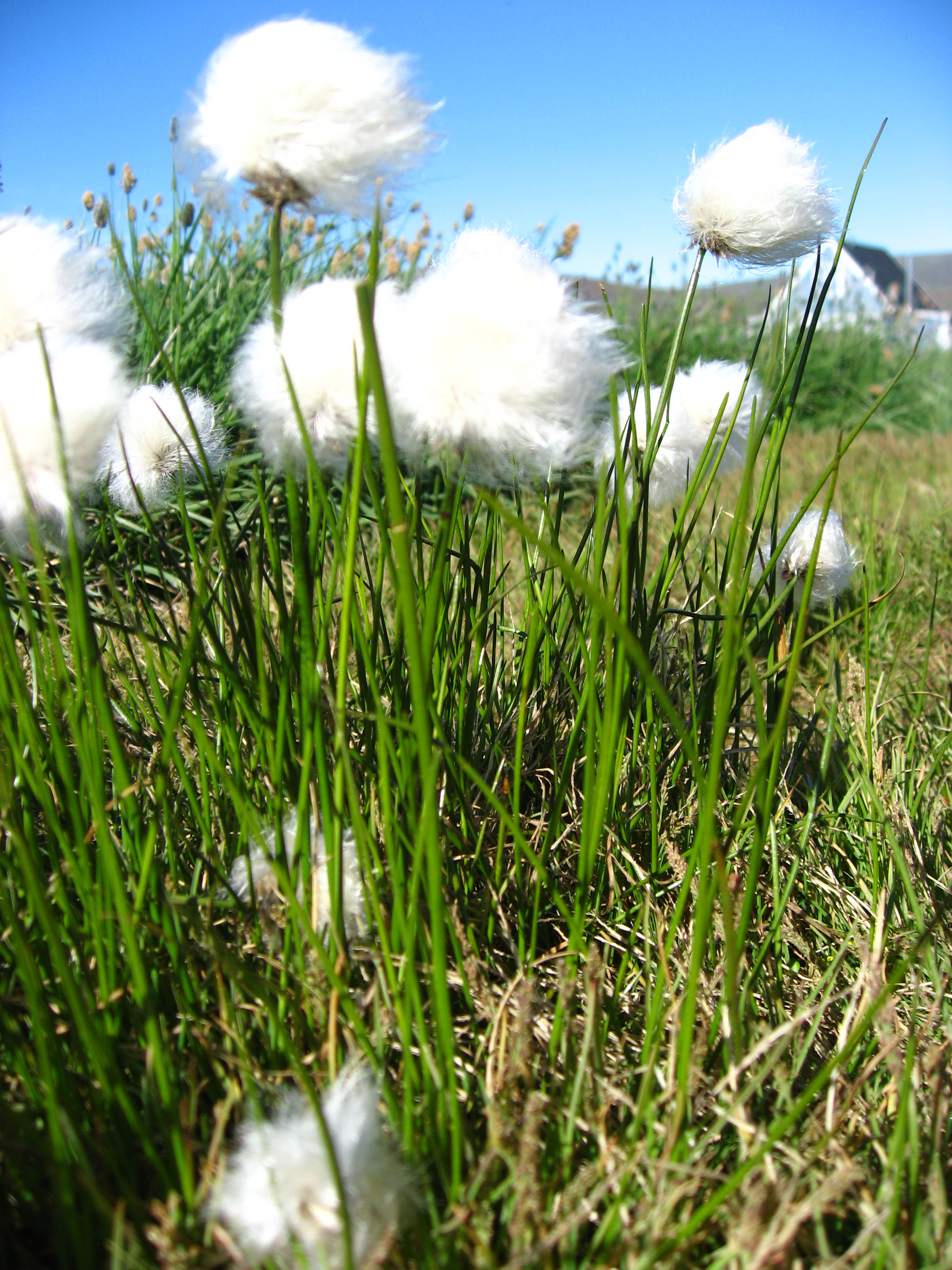 White Cottongrass (Eriophorum scheuchzeri) photographed at roadside in Upernavik Kujalleq, Greenland.